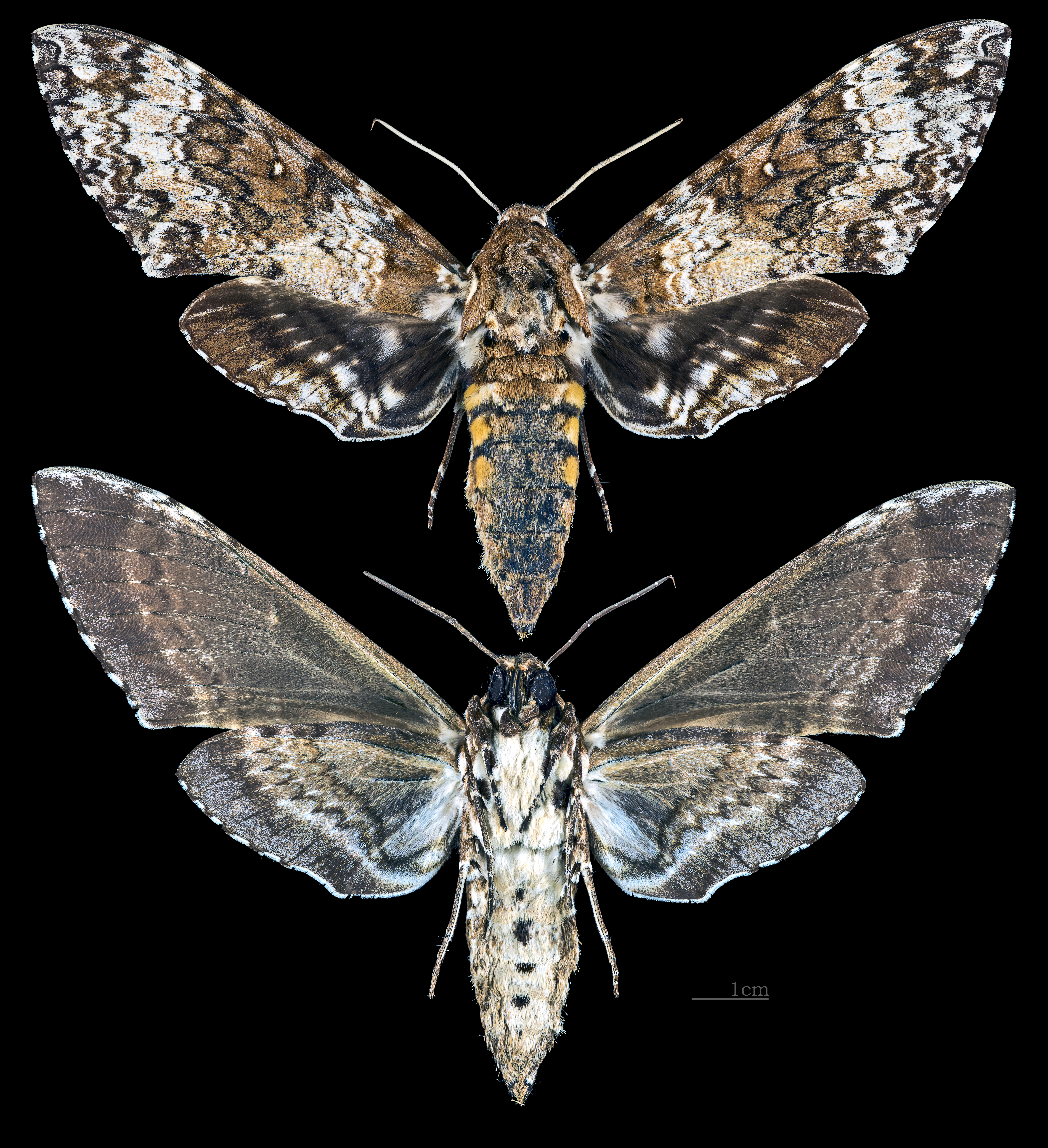 Rustica sphinx Manduca rustica harterti - Two views of same specimen Collection of the Mathematician Laurent Schwartz